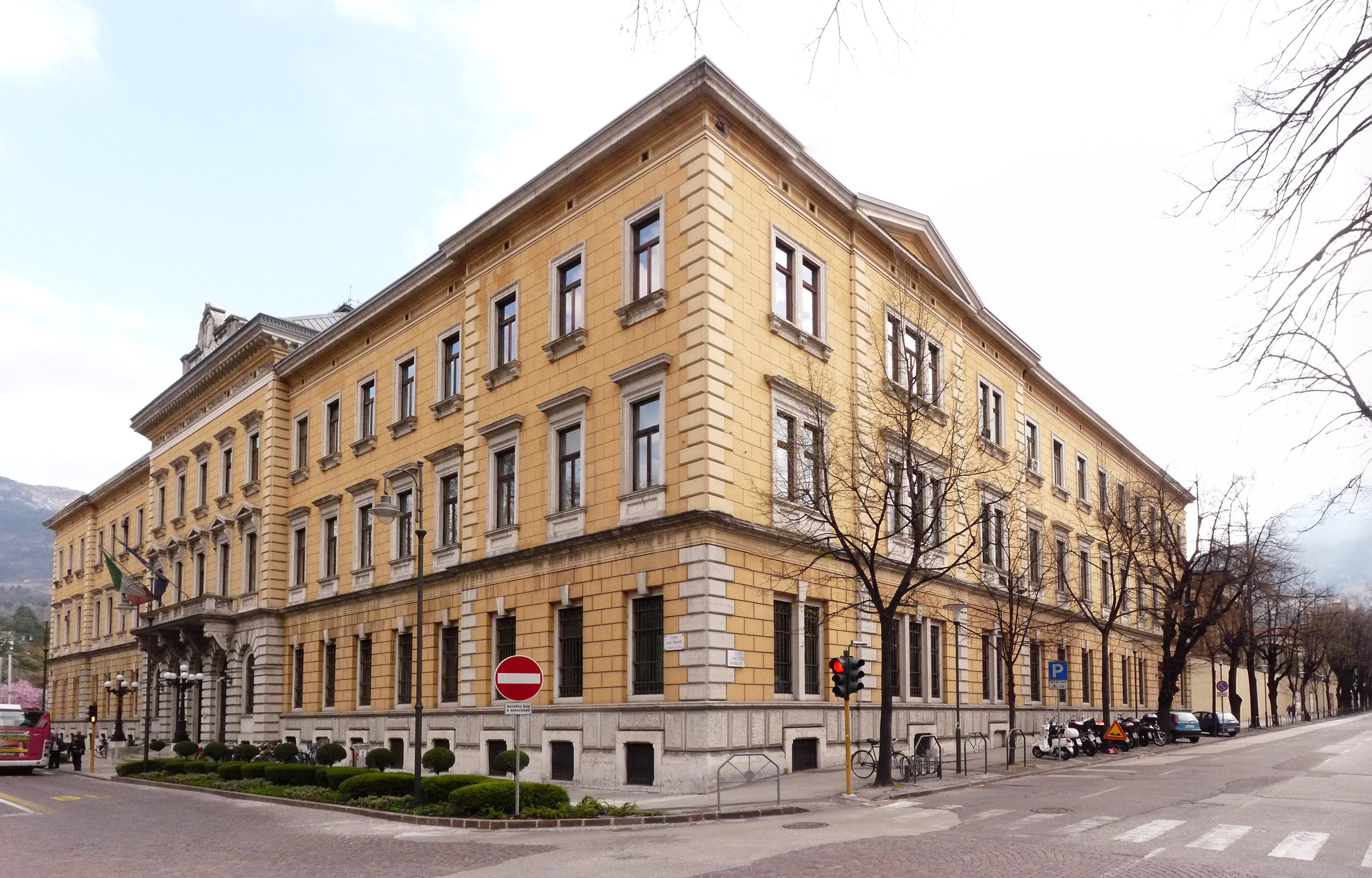 Trento (Italy): Palazzo di Giustizia seen from southwest.